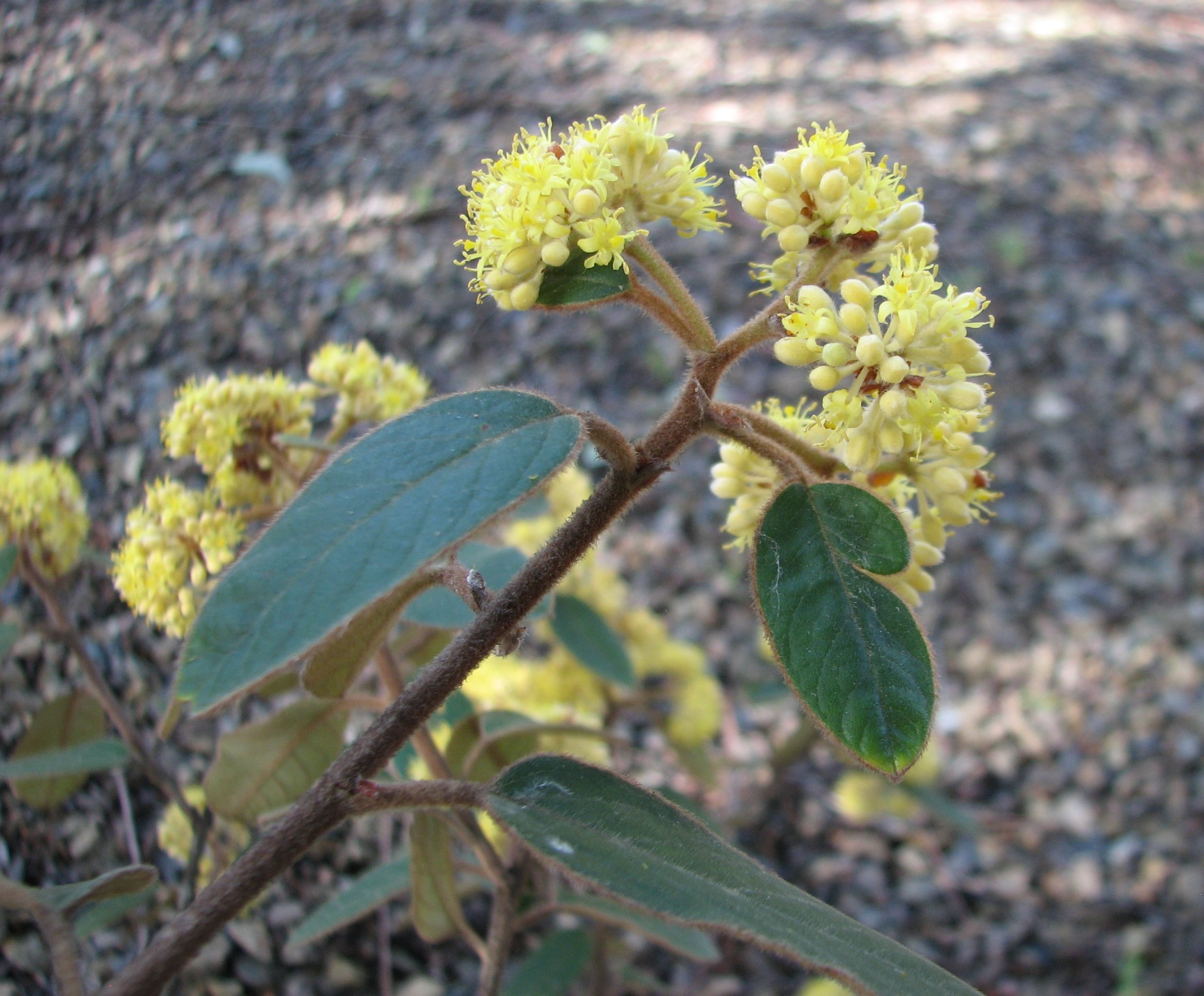 Pomaderris vellea (cultivated, labelled) , Maranoa Gardens, Balwyn, Victoria, Australia